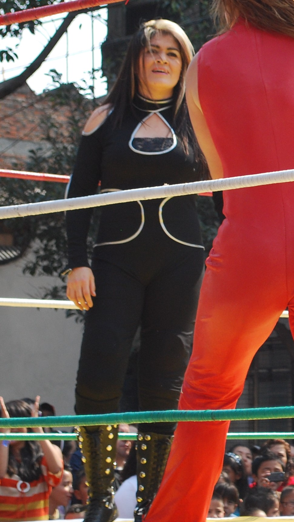 Princes Blanca during a match in 2013.